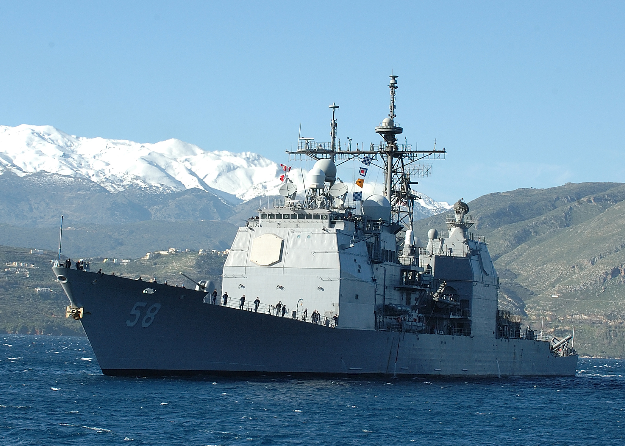 080313-N-0780F-001 SOUDA BAY, Crete (Mach 13, 2008) The guided-missile cruiser USS Philippine Sea (CG-58) arrives in Souda Harbor for a routine port visit. The Ticonderoga-class cruiser and her crew of nearly 400 personnel departed from Mayport, FL in mid-February on a regular six month deployment. Philippine Sea is deployed with the U.S. 6th Fleet area of responsibility conducting maritime security operations and theater security coordination efforts. U.S. Navy photo by Paul Farley (Released)